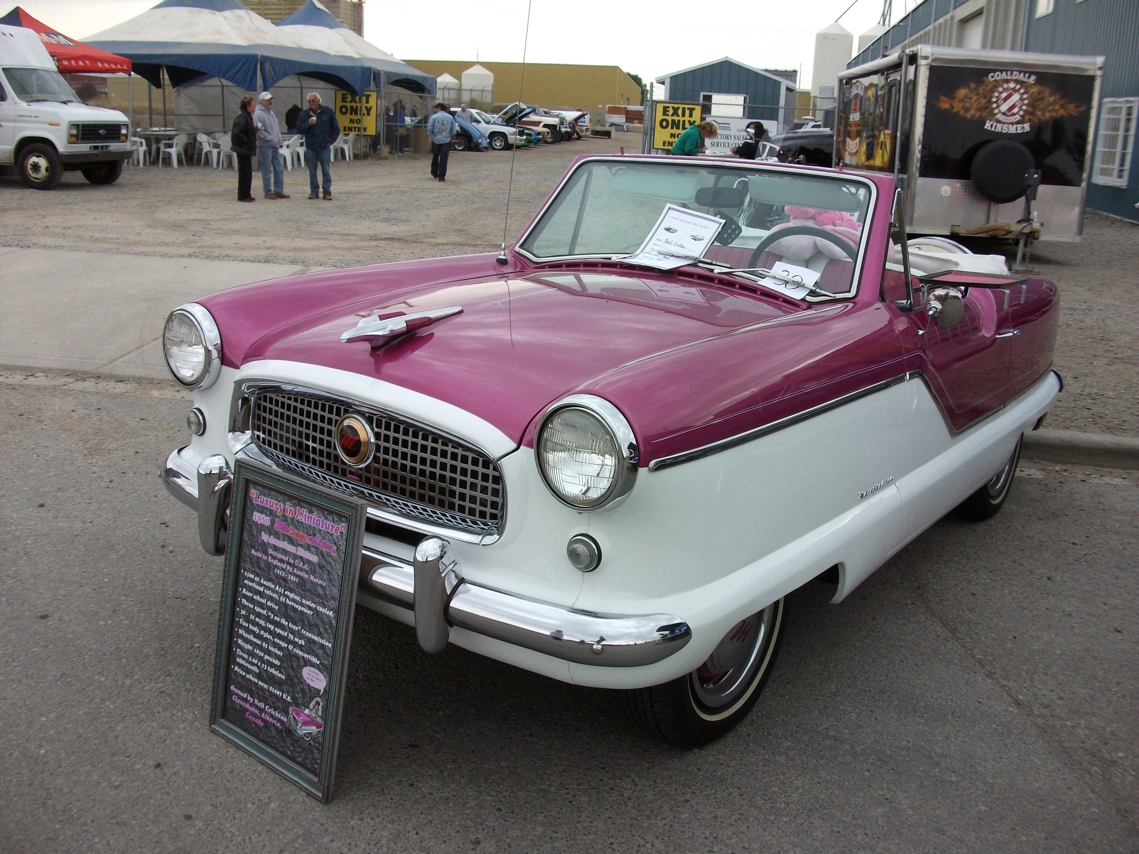 Purple and white two tone 1960 Metropolitan.